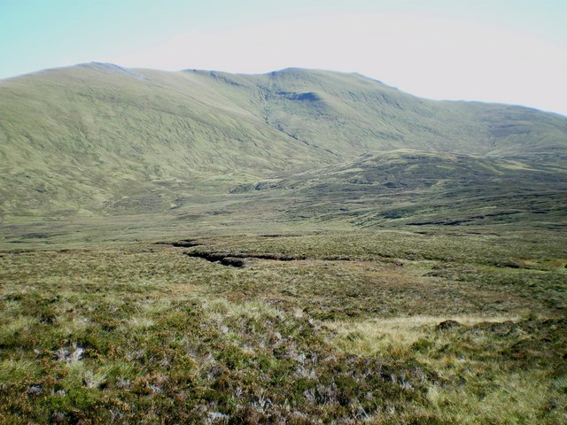 Gleann Da-Eig and Meall Corranaich Meall Corranaich is Munro number 68, and here is photographed from the southern side of Meall nam Maigheach.